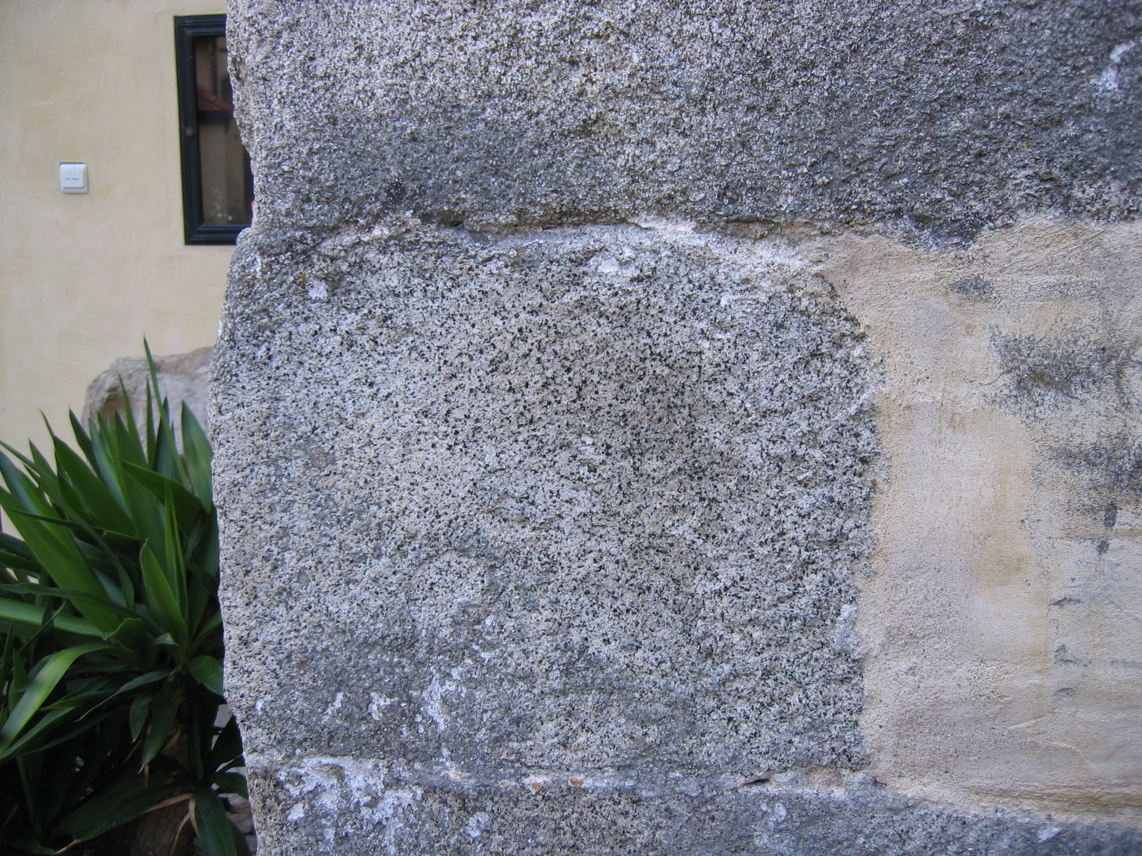 Freistädter Granodiorit